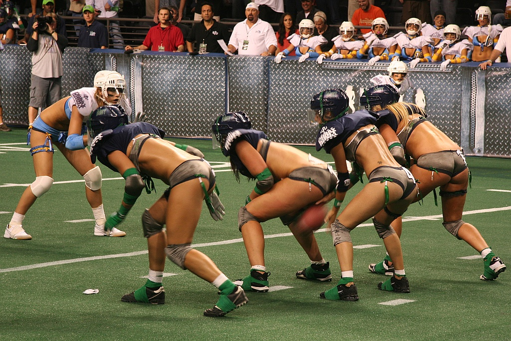 Seattle Mist vs. San Diego Seduction of the Lingerie Football league game, 11Sep09.